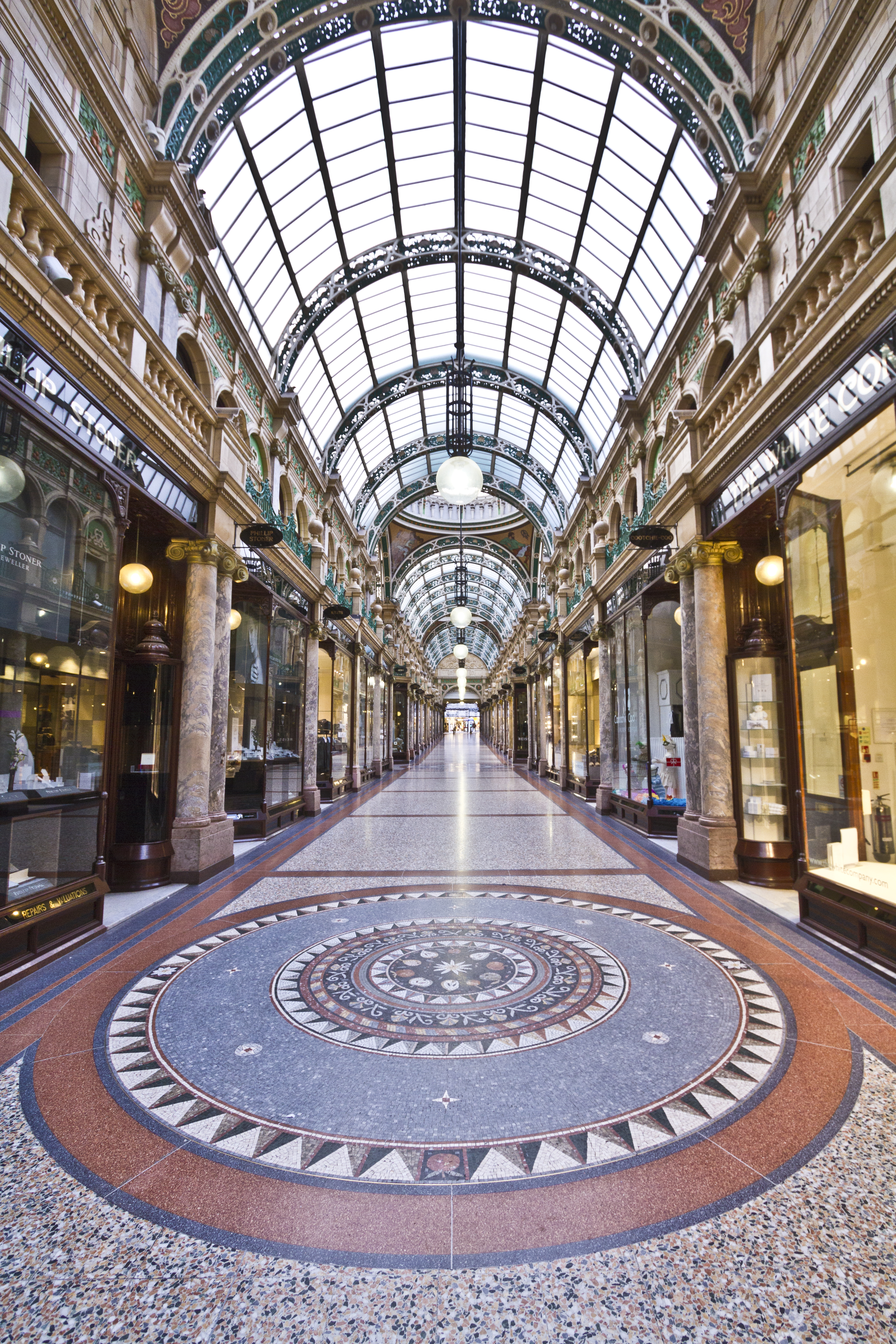 Here is a photograph taken from County Arcade inside Victoria Quarter. Located in Leeds, Yorkshire, England, UK.